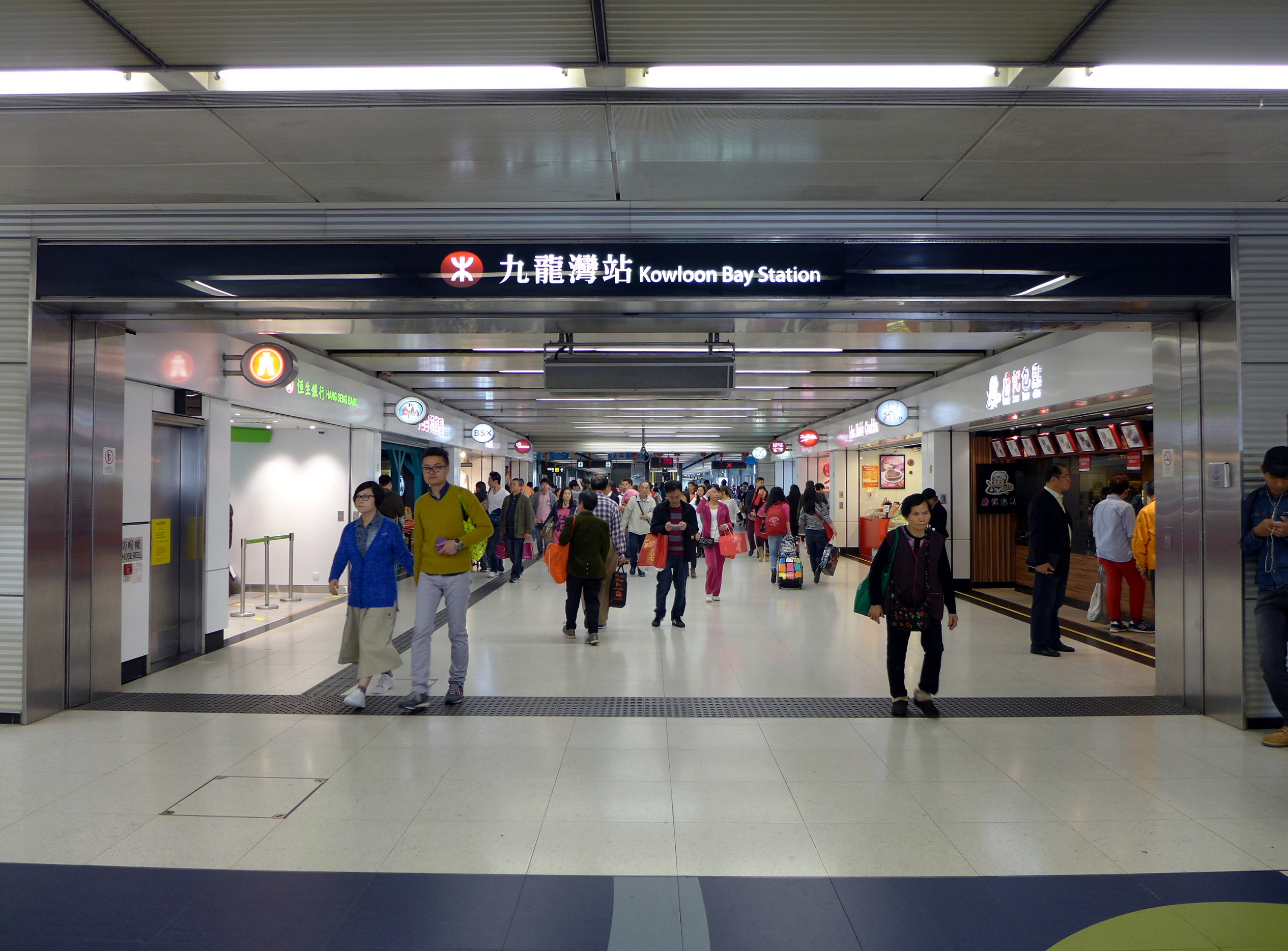 Kowloon Bay Station Exit A